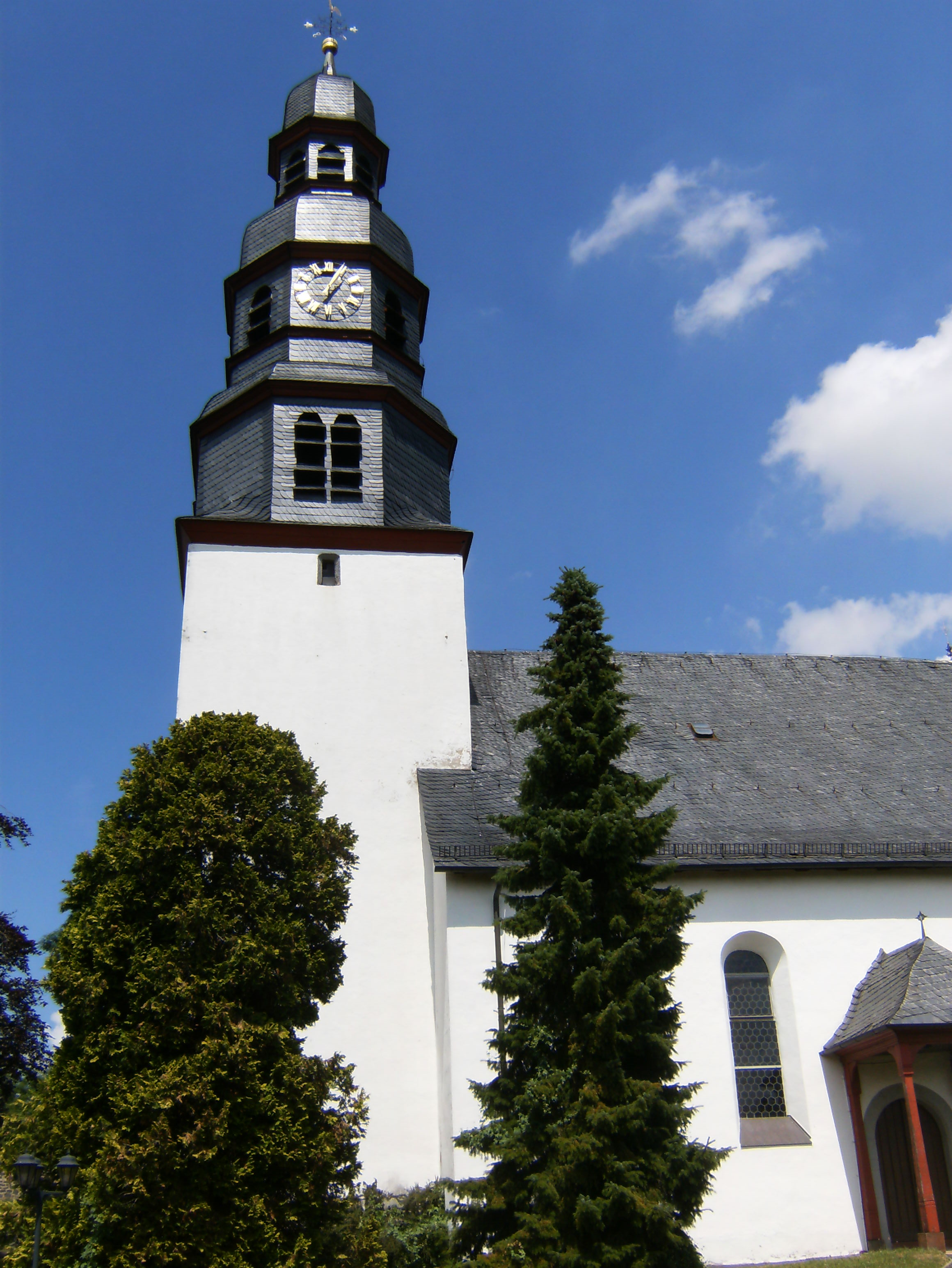 Lich-Eberstadt (Hesse), protestantic church.